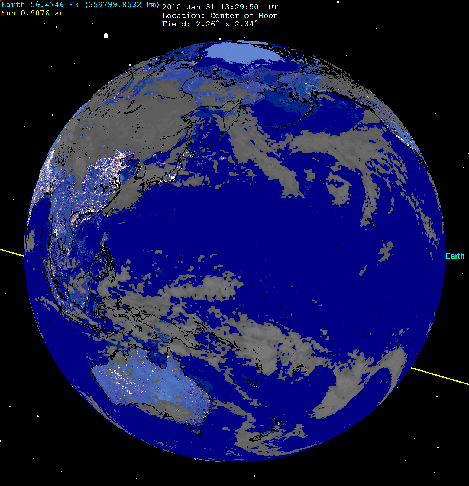 January 2018_lunar_eclipse view of earth The orientation of the earth as viewed from the center of the moon during greatest eclipse. thumb